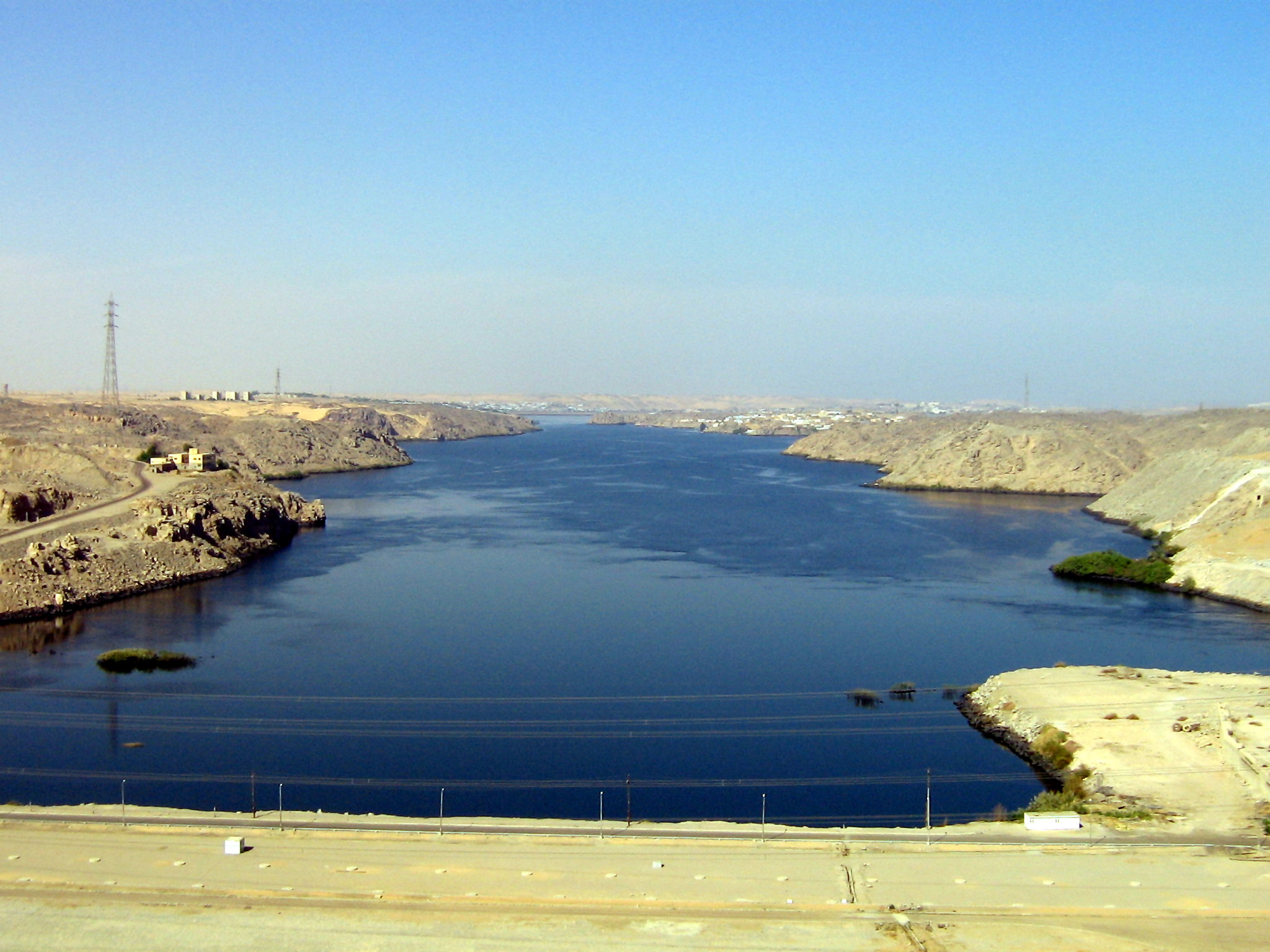 A photograph of the Aswan High Dam taken from the dam wall